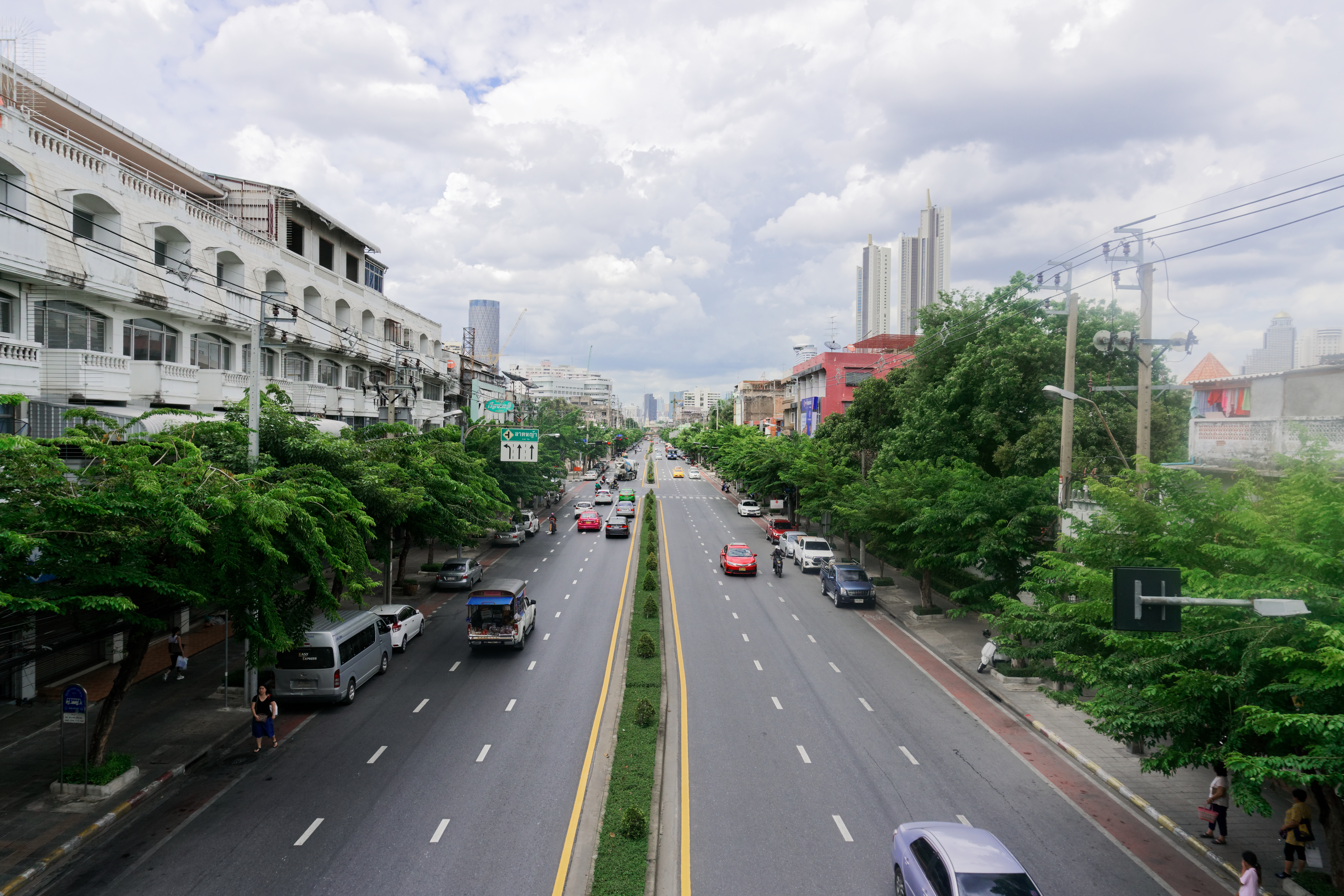 Lat Yaa rd. (View toward Lat Yaa junction) The image was shot at the pedestrian bridge near Lat Yaa junction.